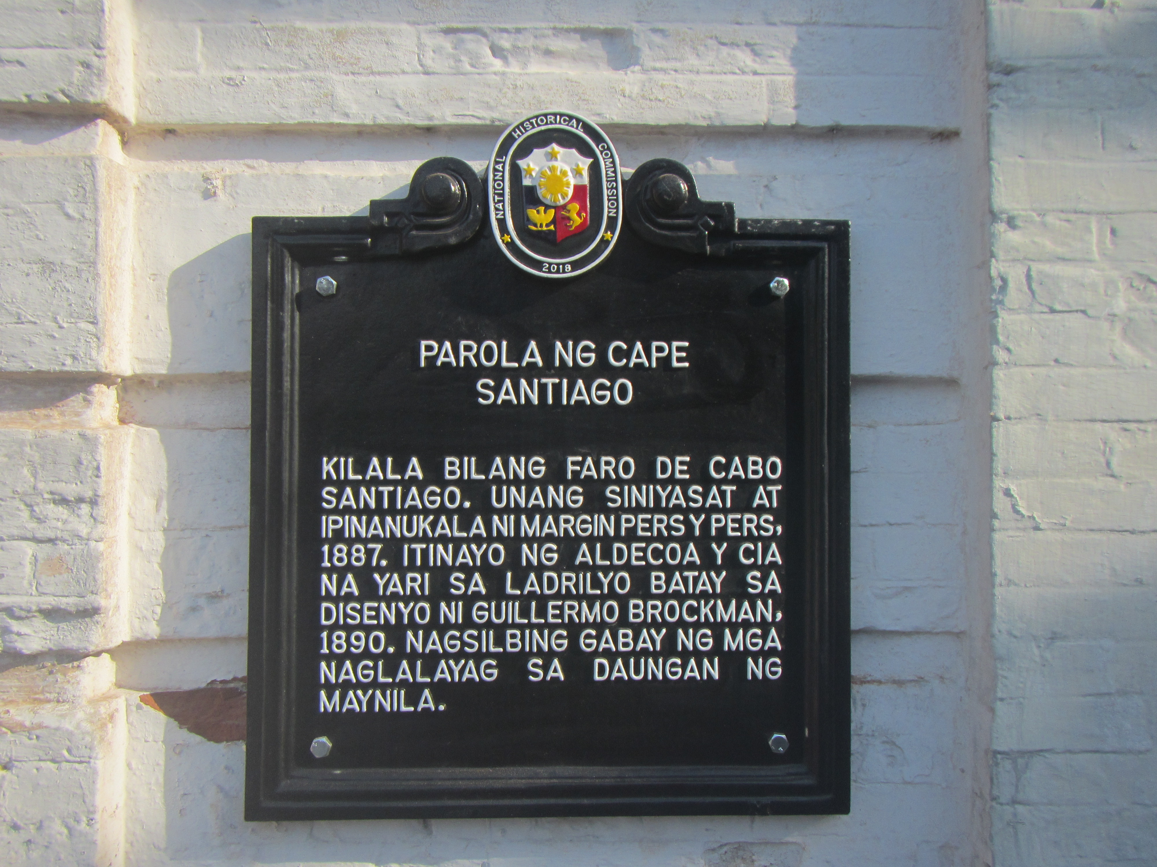 Historical Marker of the Cape Santiago Lighthouse in Calatagan, Batangas.